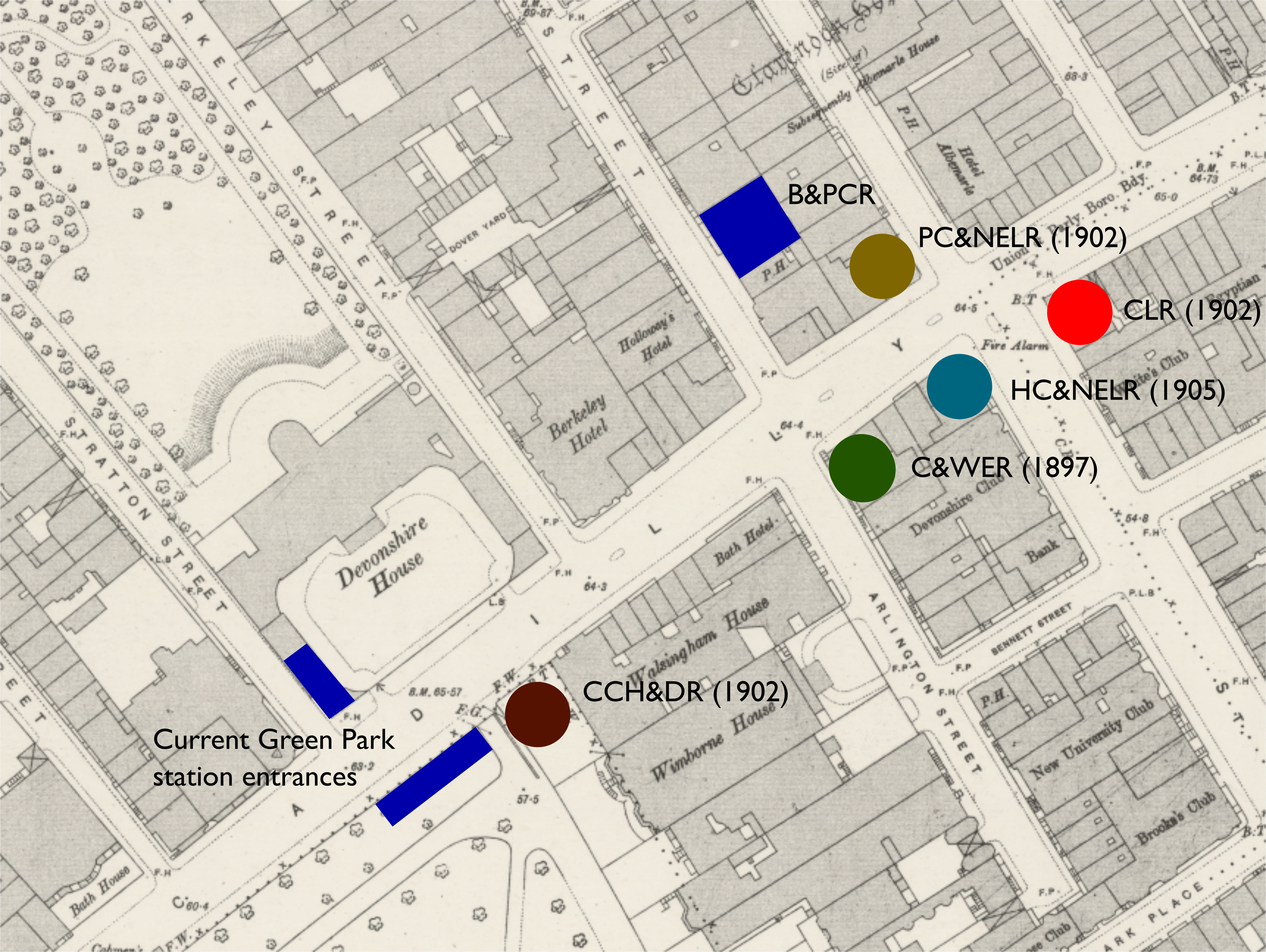 Map showing approximate locations of underground railway stations proposed between 1897 and 1905 for the area of Piccadilly near the current Green Park underground station superimposed on 1895 Ordnance Survey map. B&PCR: Brompton and Piccadilly Circus Railway - proposed in 1897, approved by parliament and opened in 1906. C&WER: City and West End Railway - proposed in 1897, rejected by parliament. CLR: Central London Railway - proposed in 1902, 1903 and 1905, withdrawn. CCH&DR: Charing Cross, Hampstead and District Railway - proposed 1902, rejected by parliament. PC&NELR: Piccadilly, City and North East London Railway - proposed 1902, withdrawn. HC&NELR: Hammersmith, City and North East London Railway - proposed 1905, rejected by parliament.